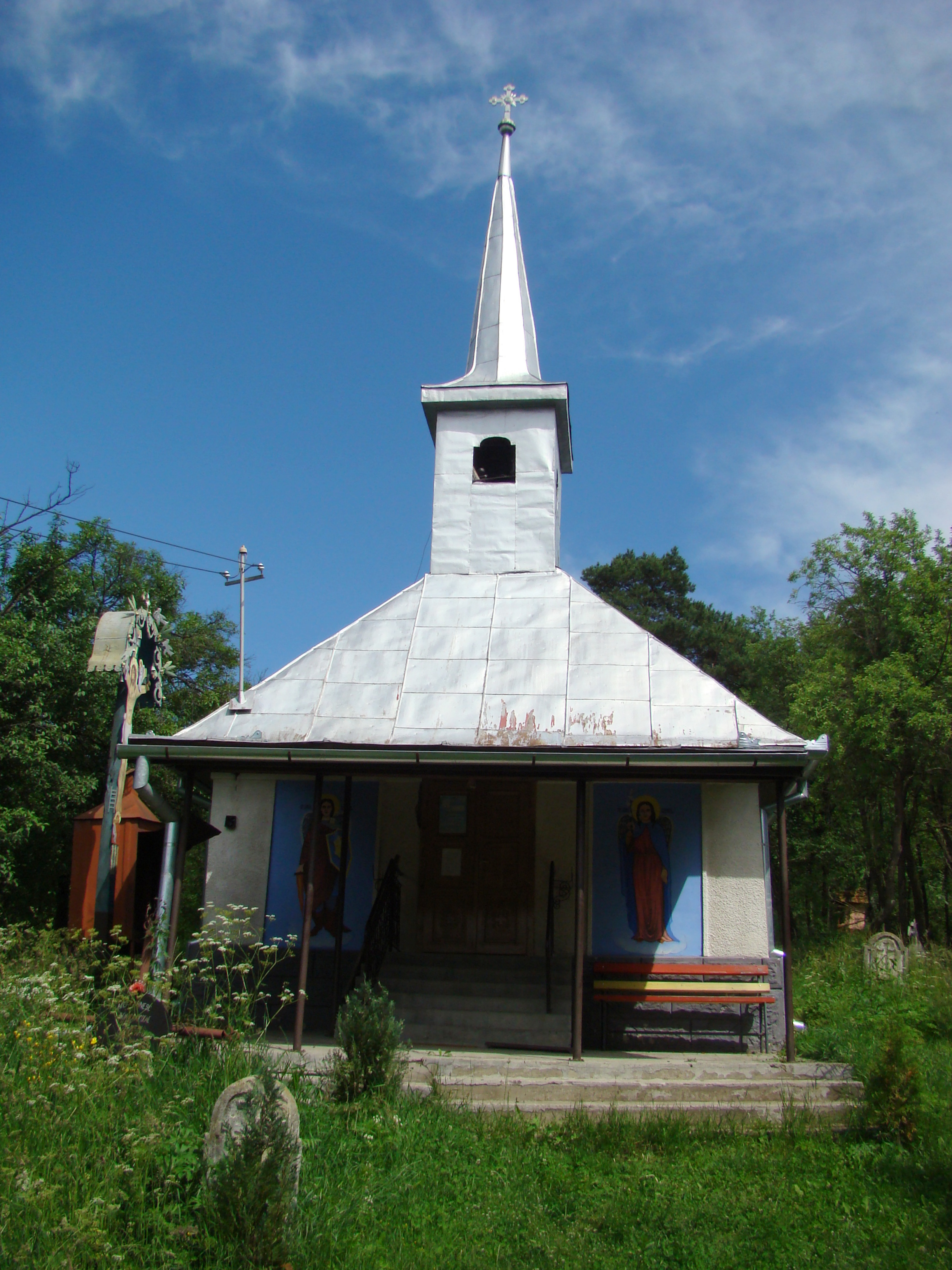 Făureni, Cluj county, Romania